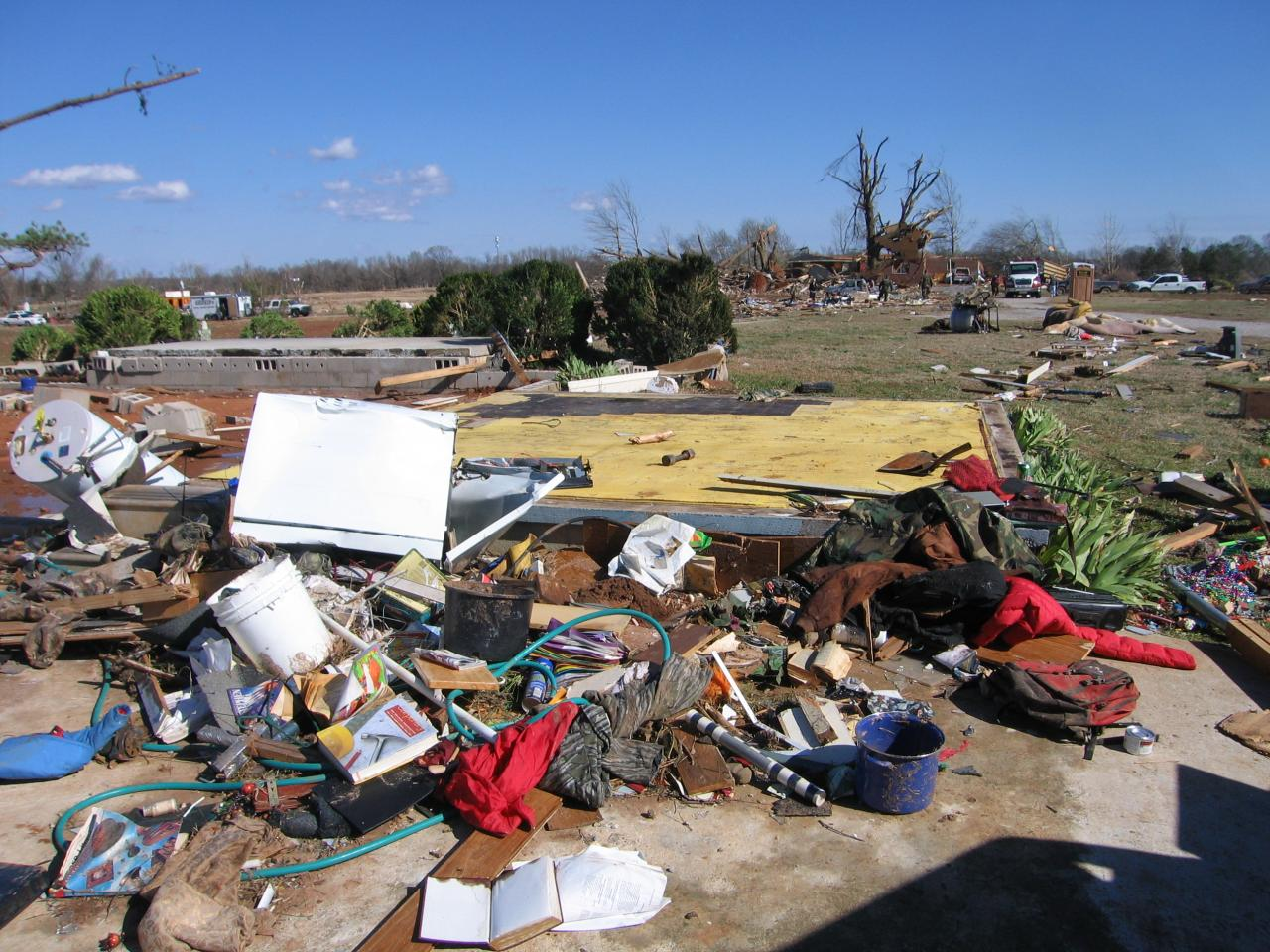 Destroyed home in Lawrence County, Alabama as an EF4 tornado struck the area early on February 6, 2008. 3 people were killed by the tornado.